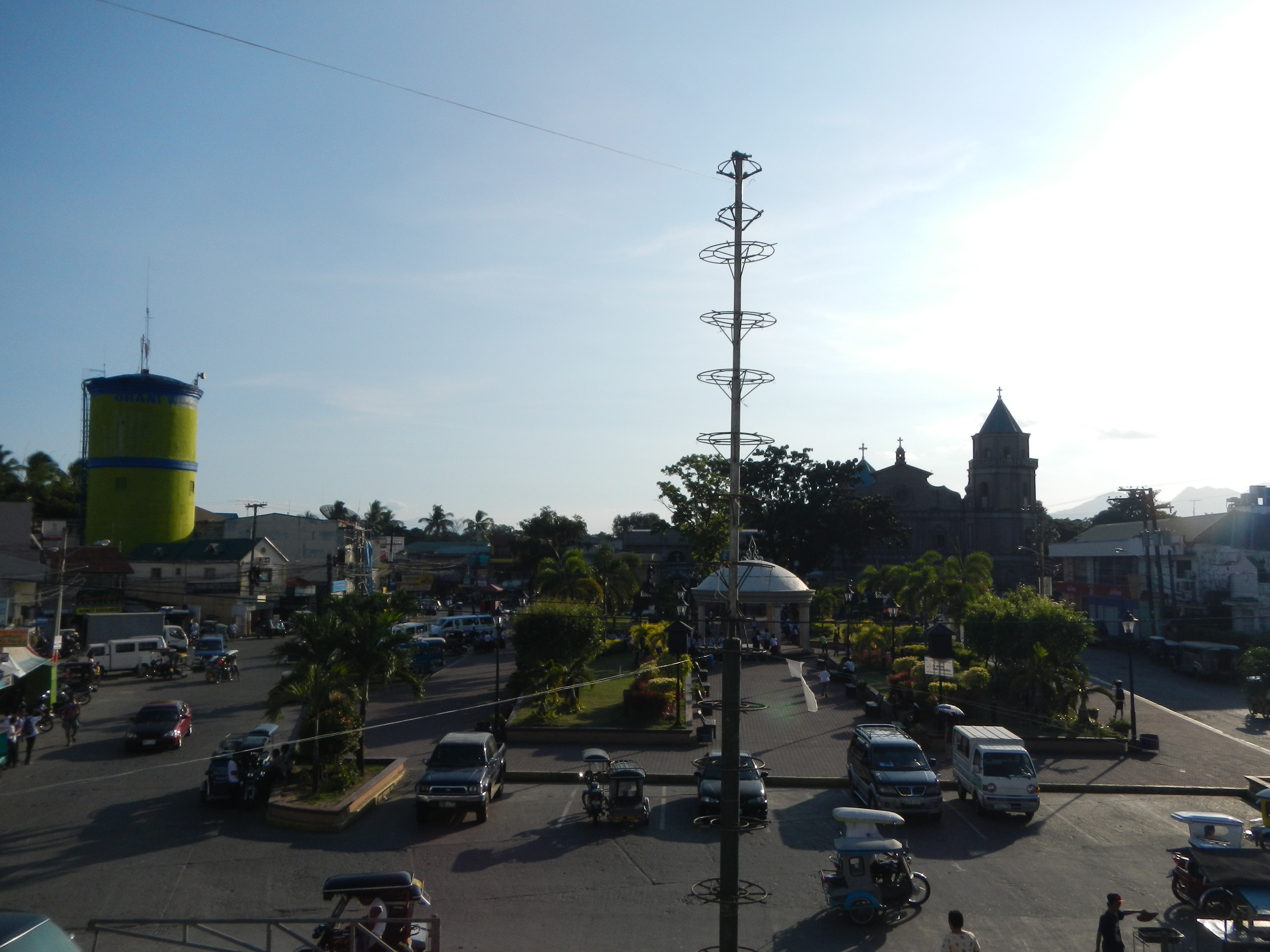 Orani, Bataan[1][2]